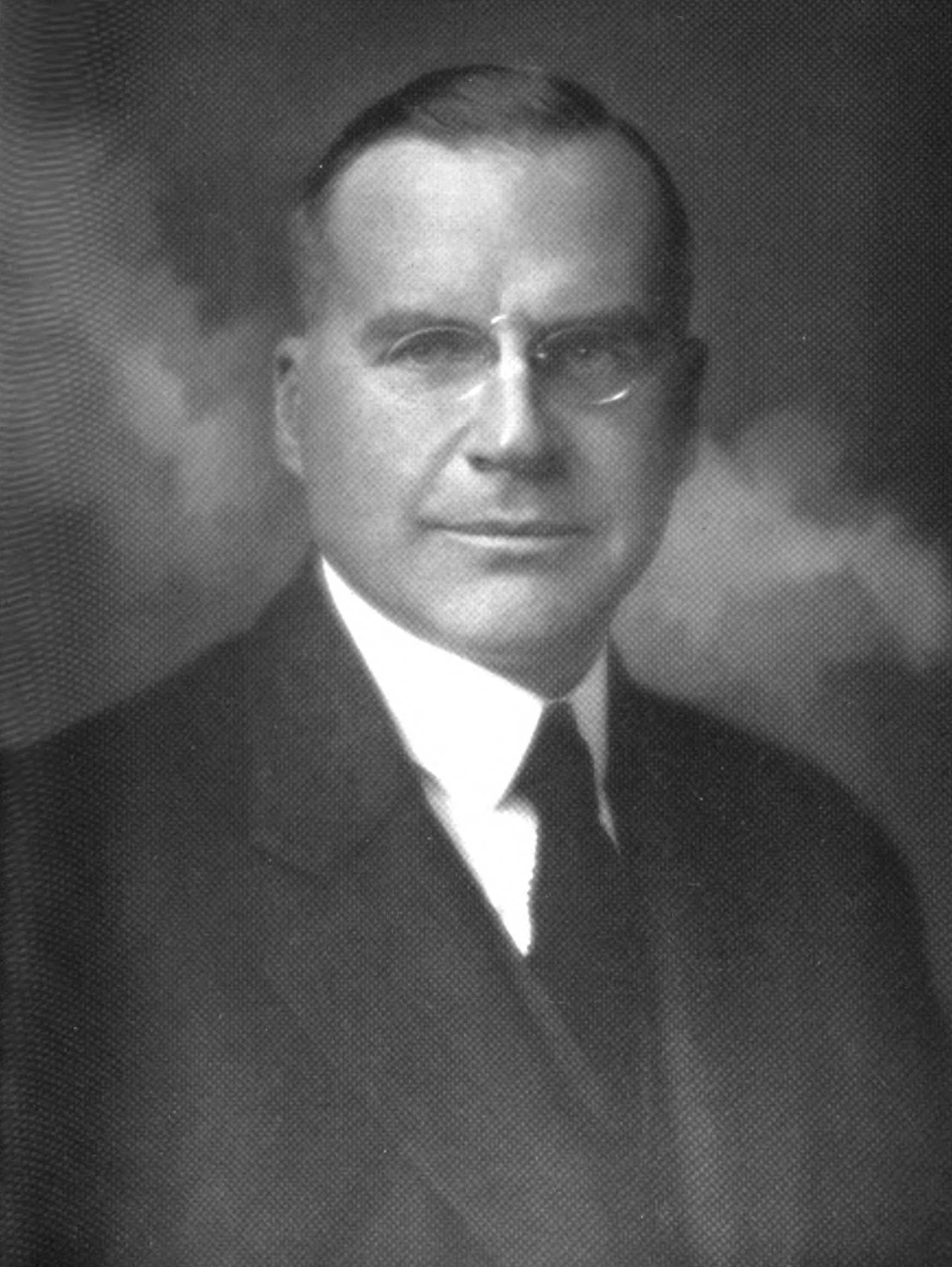 Head and shoulders photograph of American composer Paul Hastings Allen wearing a suit, tie and eyeglasses